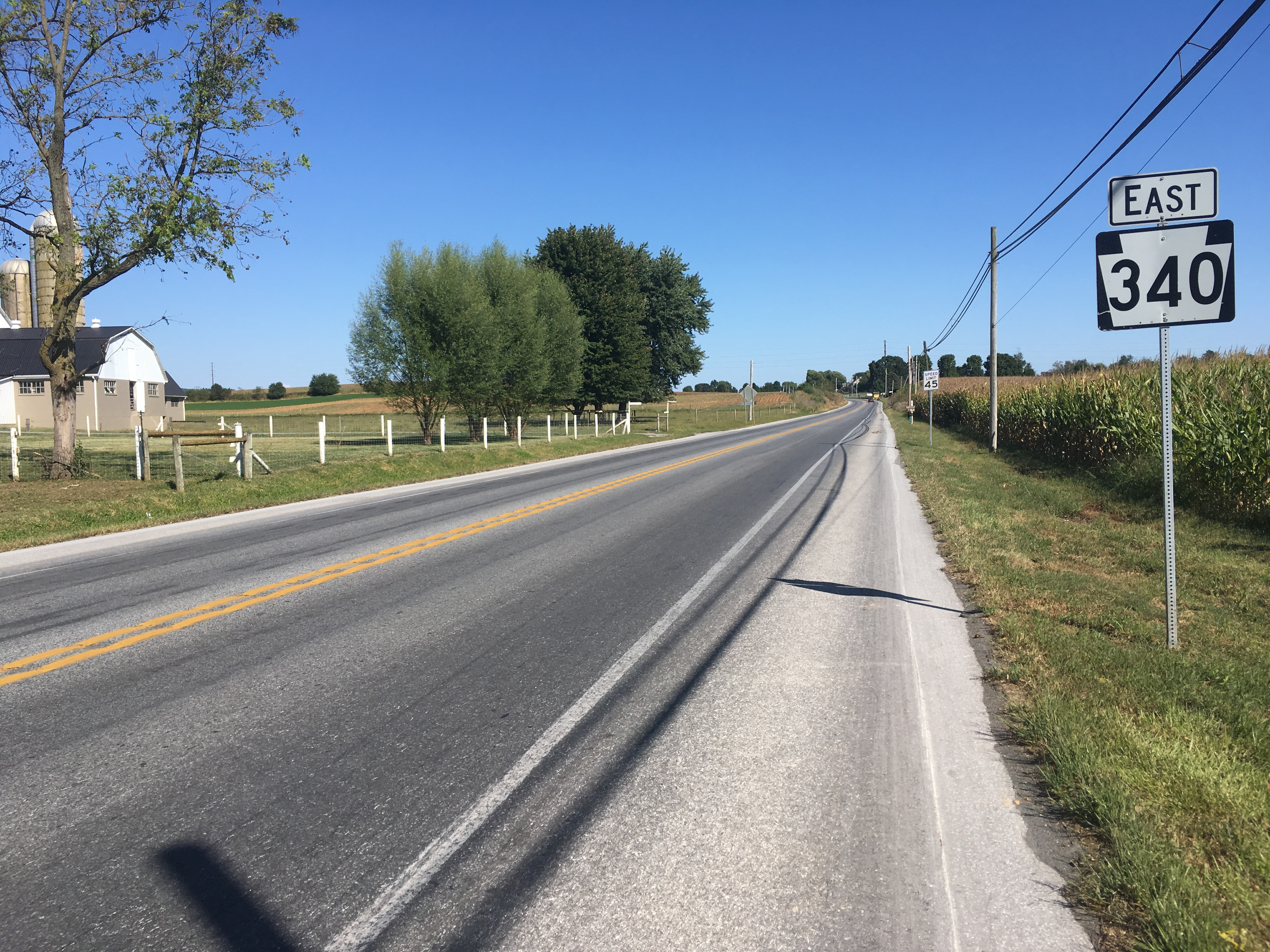 Eastbound Pennsylvania Route 340 (Old Philadelphia Pike) past the intersection with New Holland Road in Leacock Township, Pennsylvania